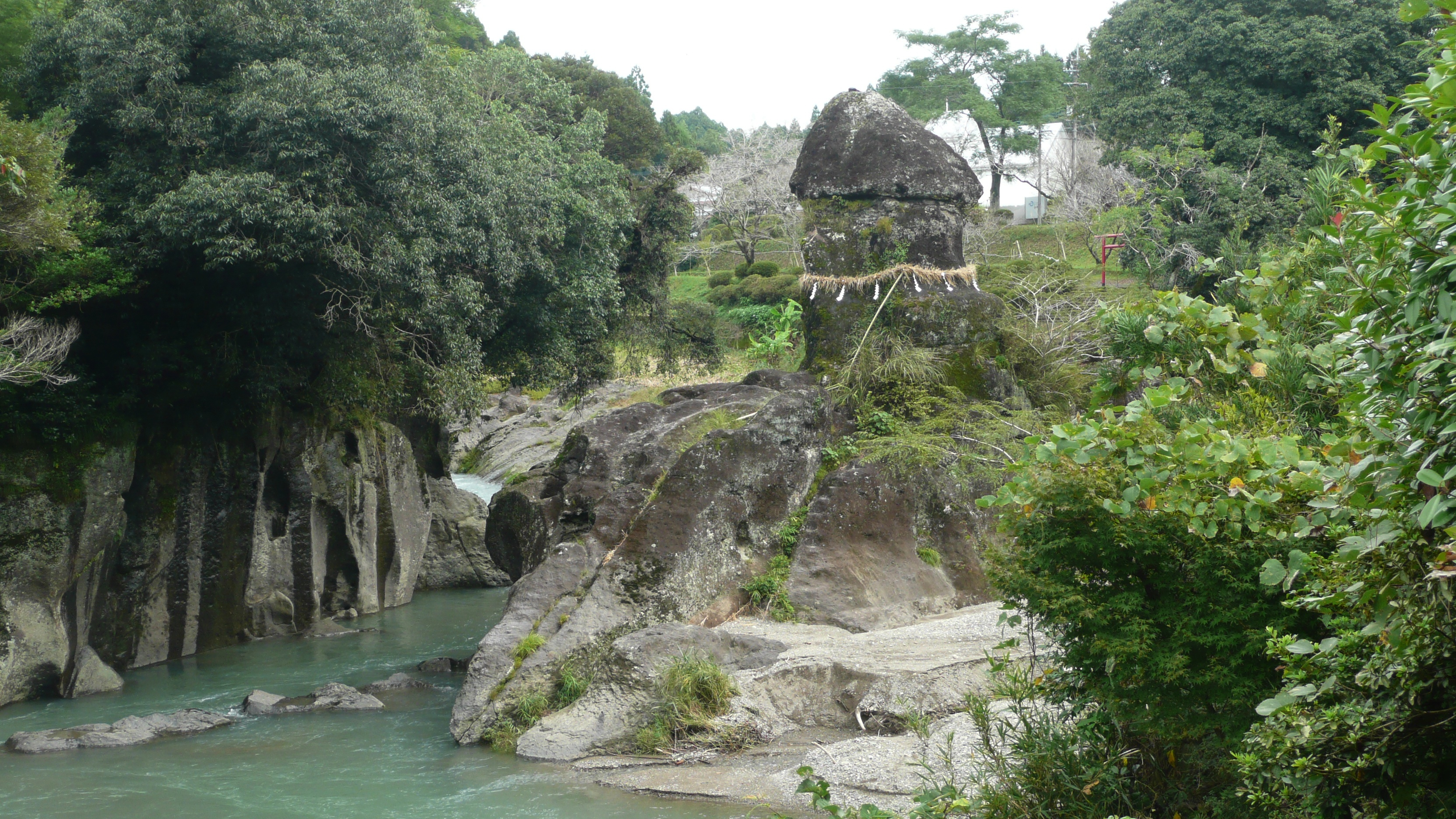 Inyo seki (Kobayashi City, Miyazaki, Japan) The Rock seems Penis and Vagina.